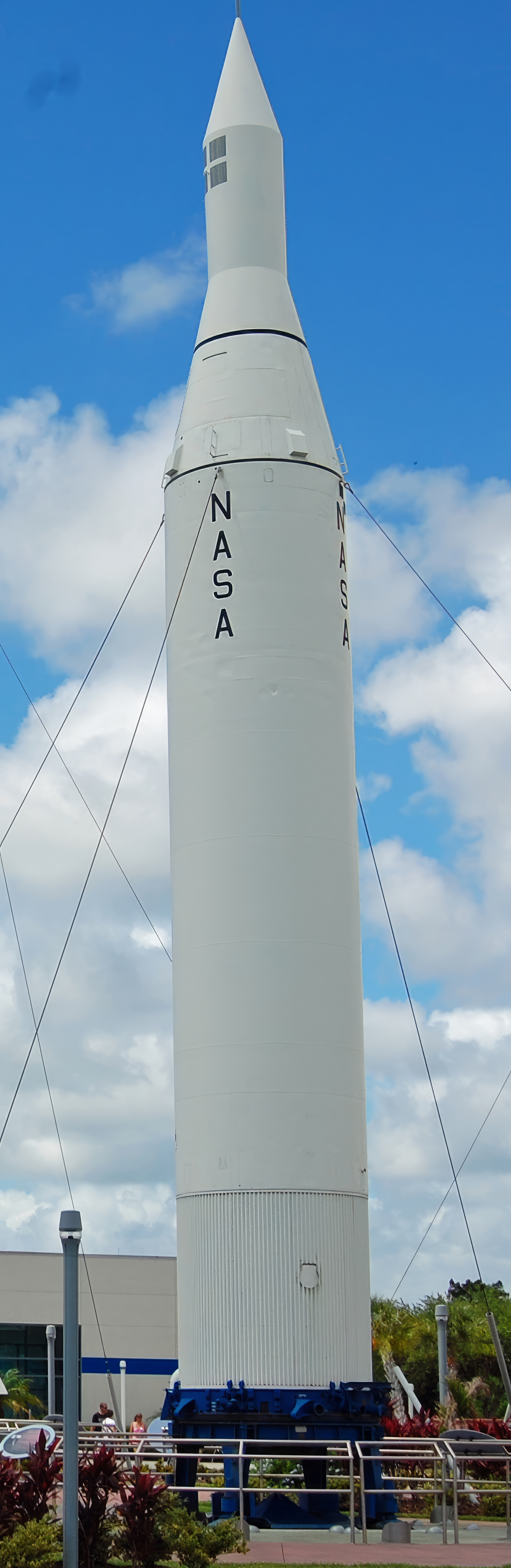 Juno II at Kennedy Space Center Visitors Center